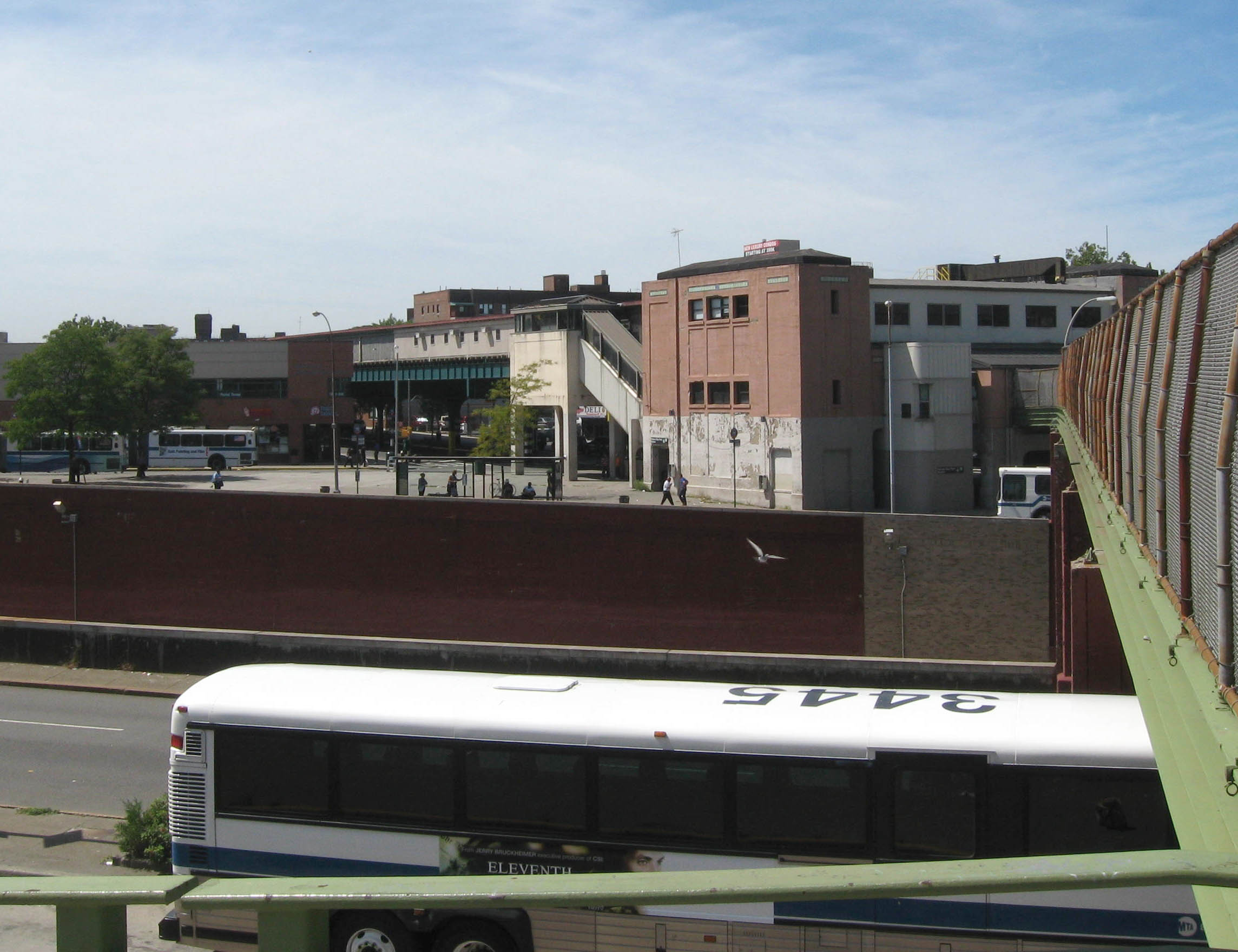 Looking west across Bruckner Expressway along pedestrian overpass that connects Pelham Bay Park (IRT Pelham Line) to the park and bus stop